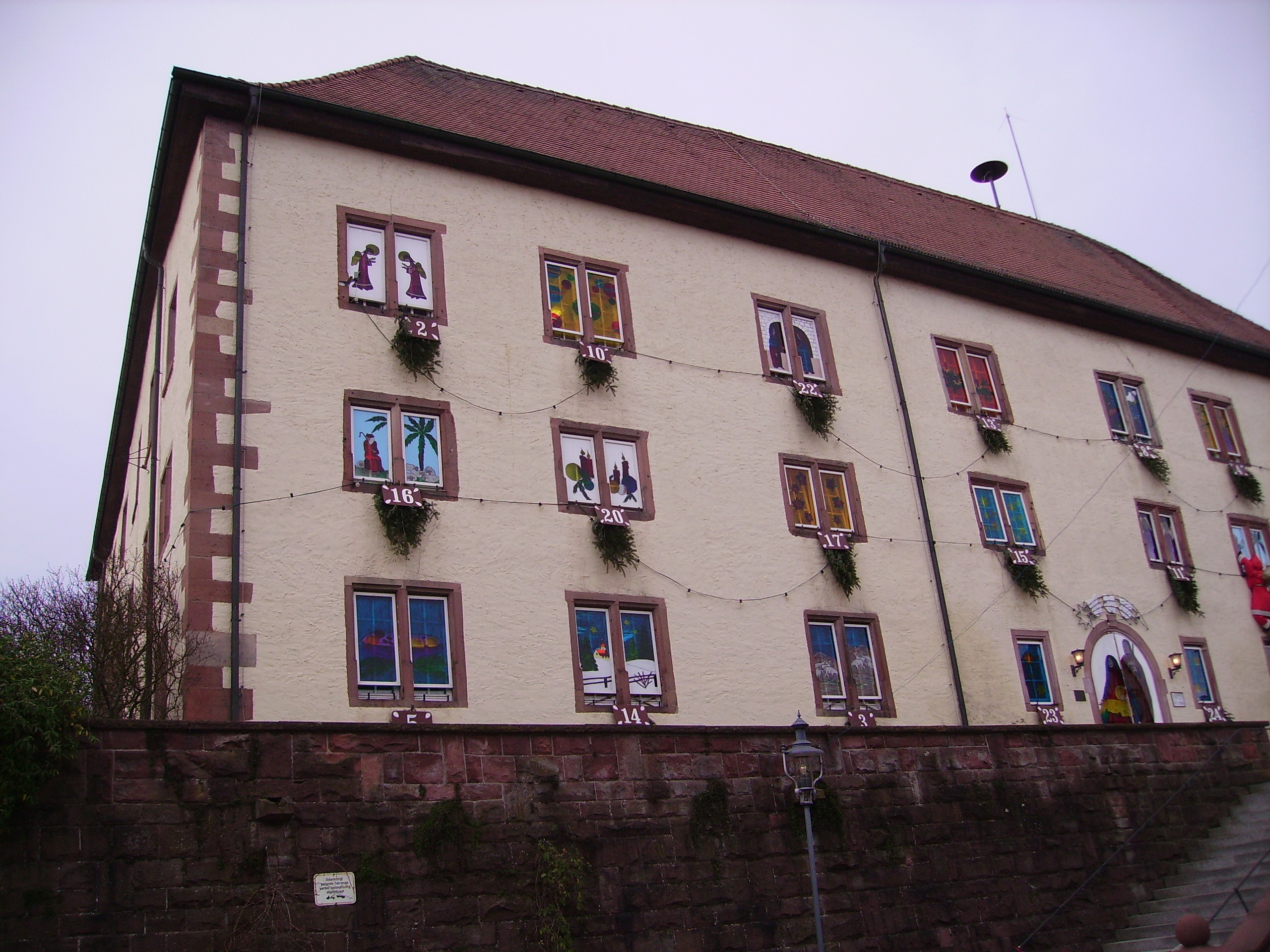 castle of Walldürn, Germany